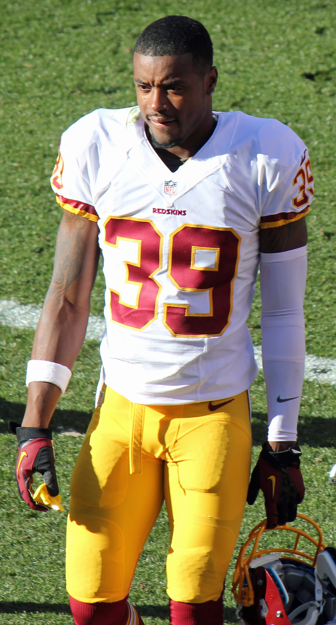 David Amerson, a player on the National Football League.